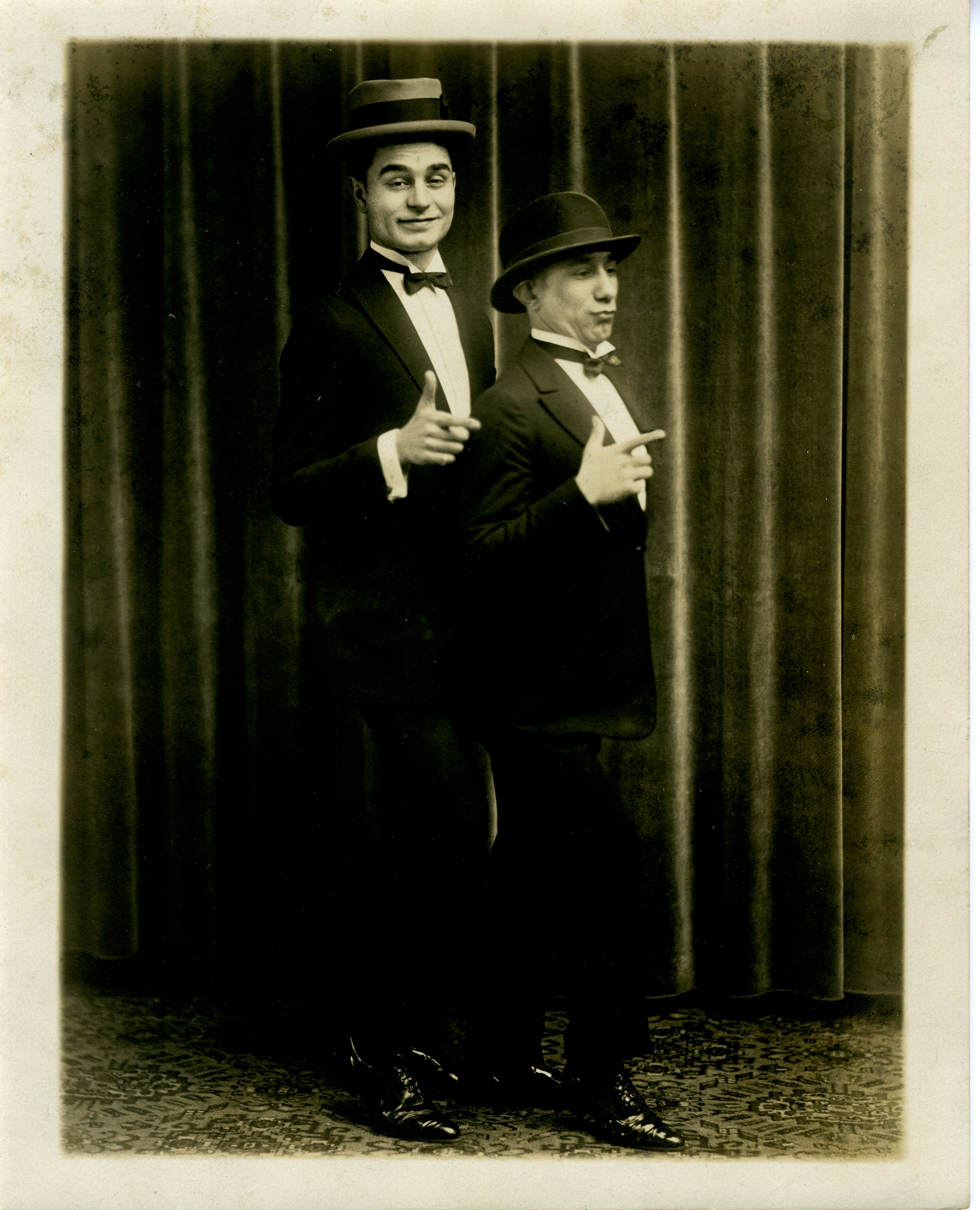 Morton and Mayo were a comedy act in Vaudeville in the 20s and 30s